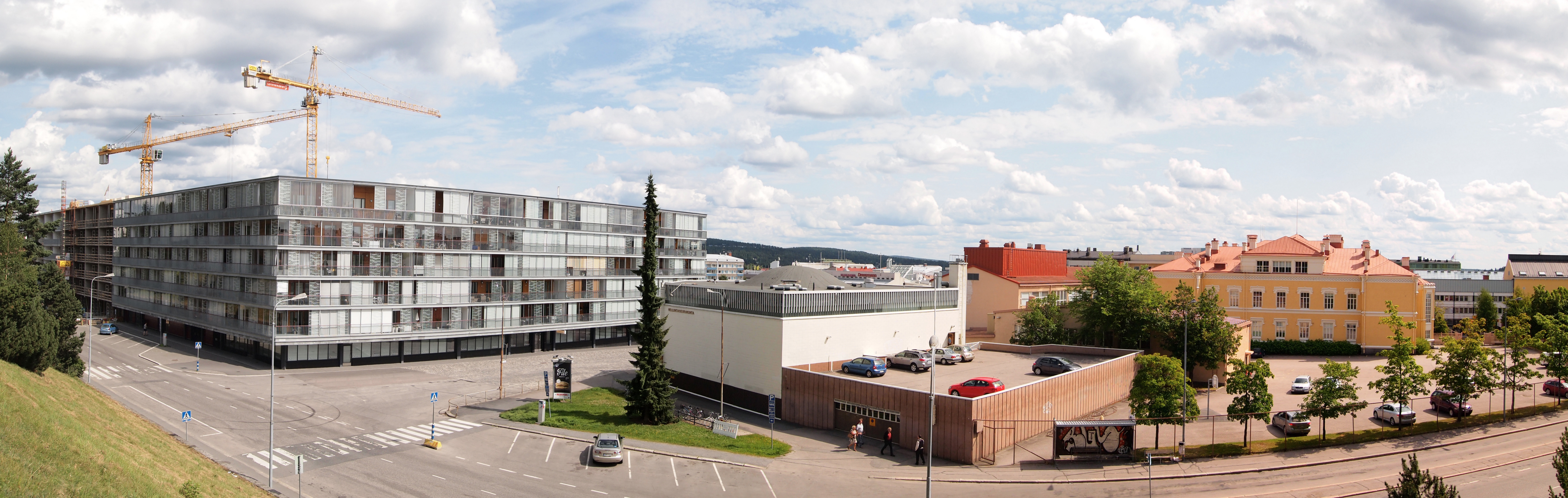 View in Jyväskylä from hill Harju.